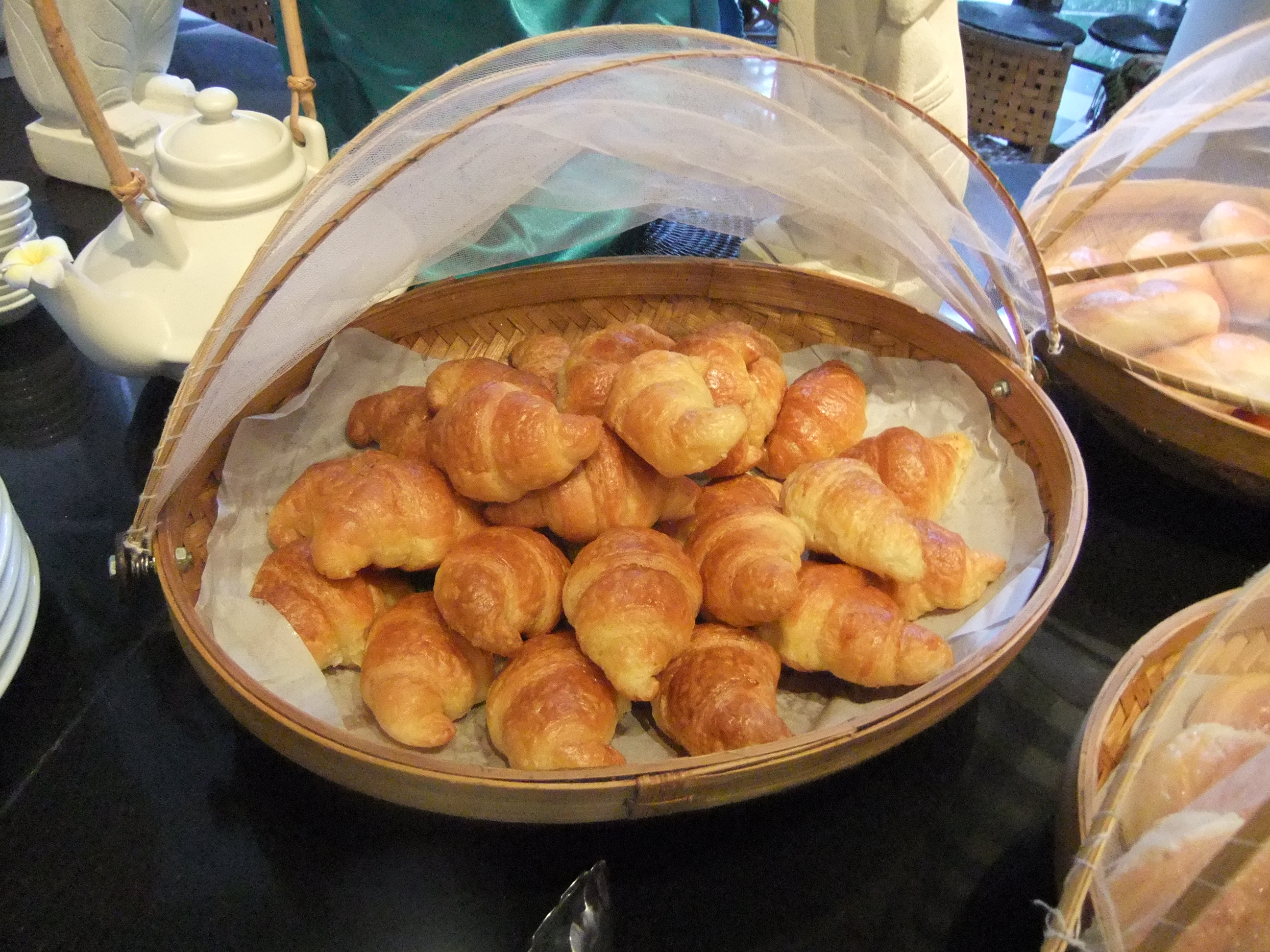 Croissant in Bali